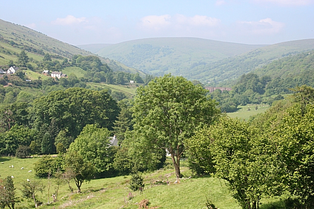 Glendun One of the Nine Glens of Antrim. The Glendun Viaduct, in the next square, can just be made out among the trees in the middle distance, and on the skyline is Crocknamoyle.